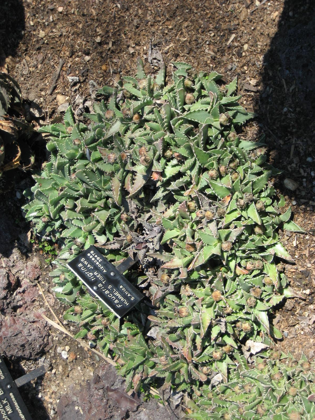 Photographed at Huntington Gardens (Los Angeles) in March